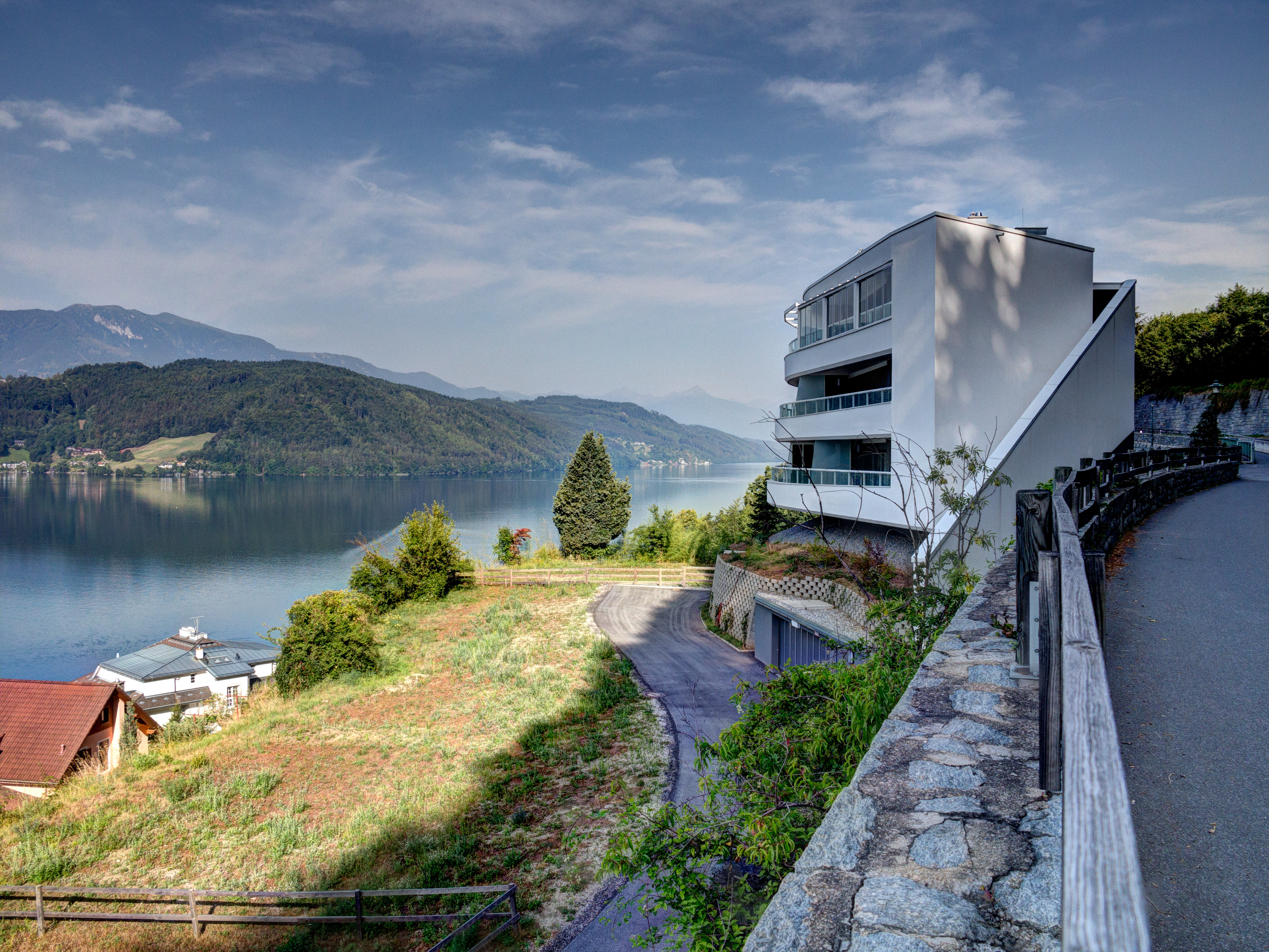 By 2012 built apartment house in Dellach am Lake Millstatt in Carinthia / Austria / EU. Here once stood the inn Sonnenhof. View to the west. In the background the Lake Millstatt, behind the Laggerhof and in the distance the Goldeck and Kreuzeckgruppe.